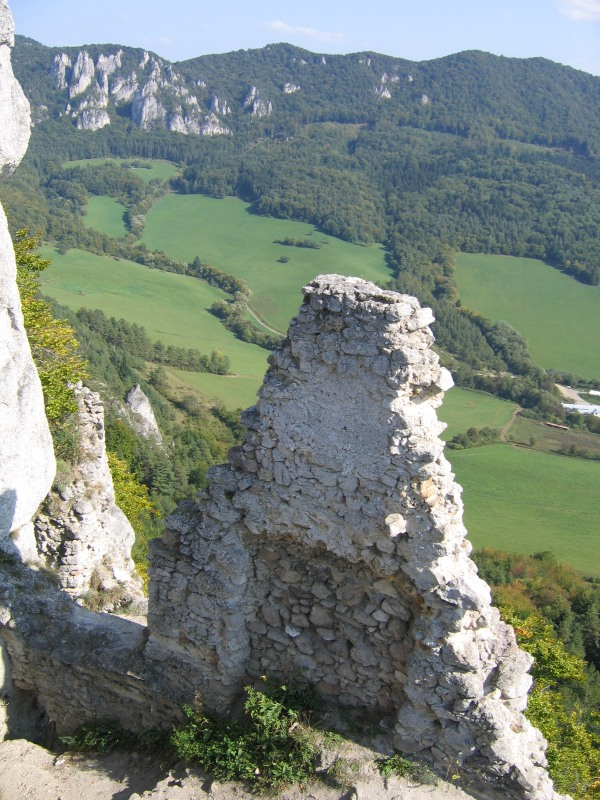 Súľov castle, Slovakia